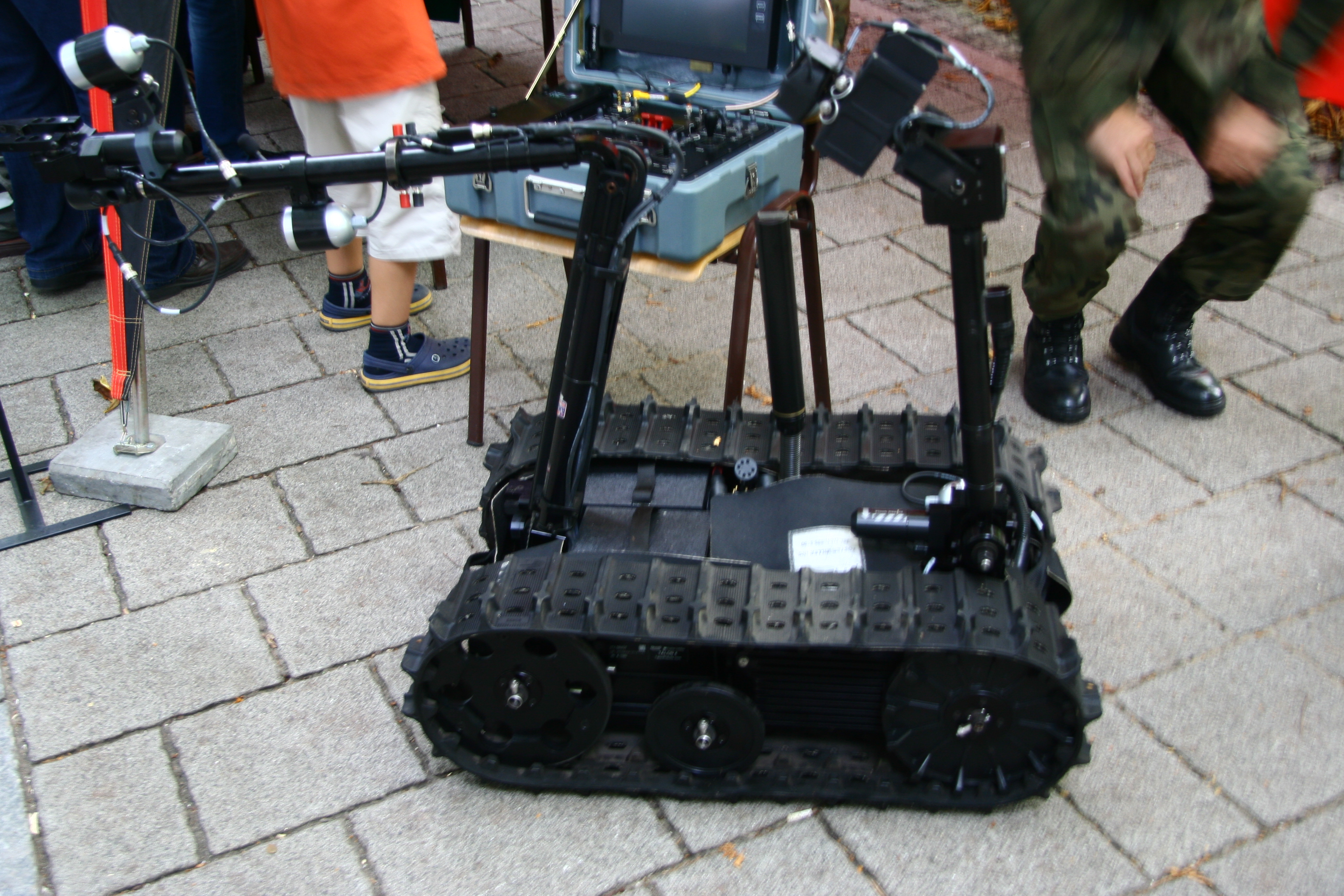 EOD robot_talon IV